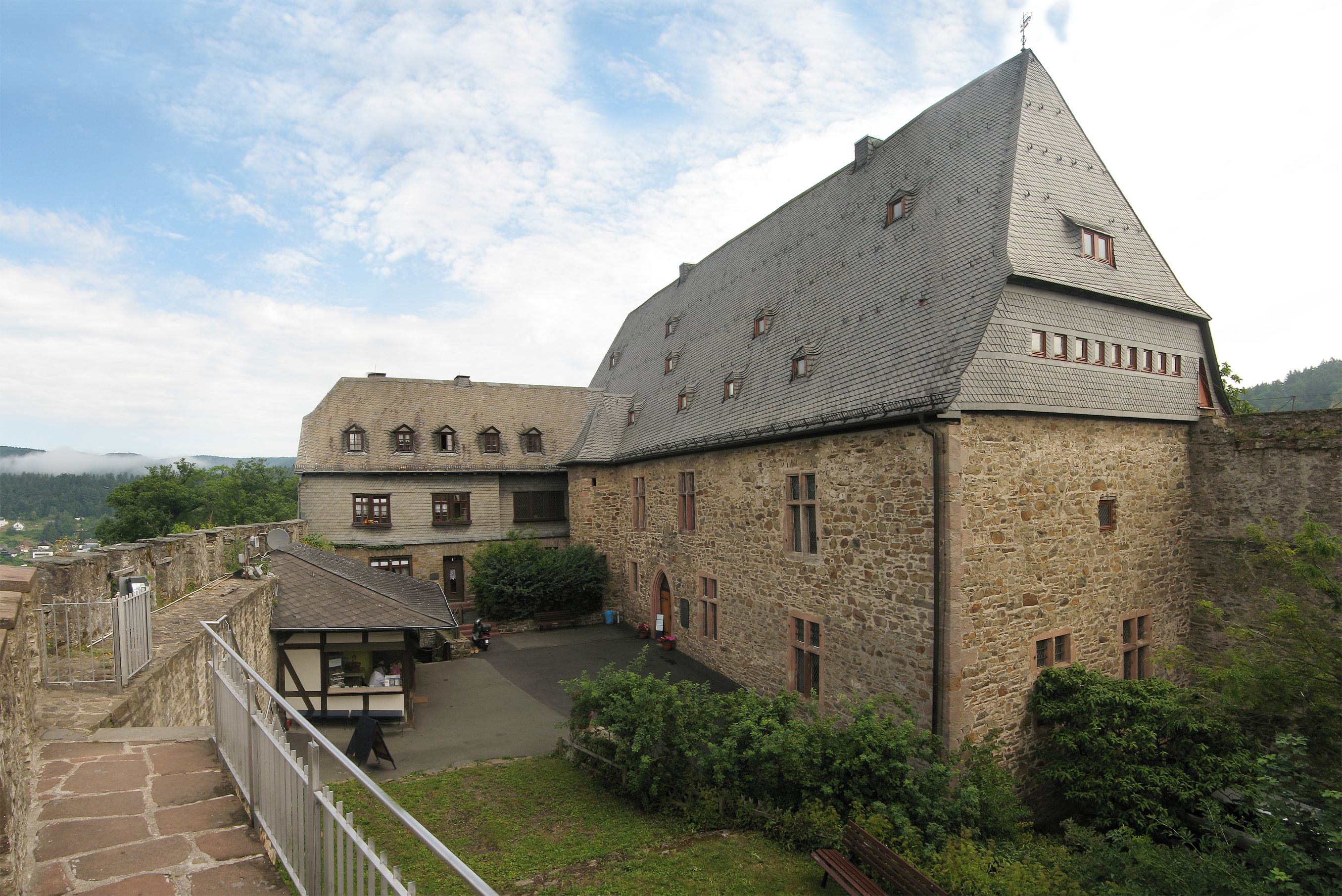 The Castle of Biedenkopf